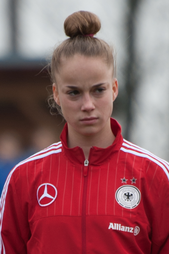 UEFA European Women's U17 Championship elite round Germany vs. Switzerland, 2016-03-19